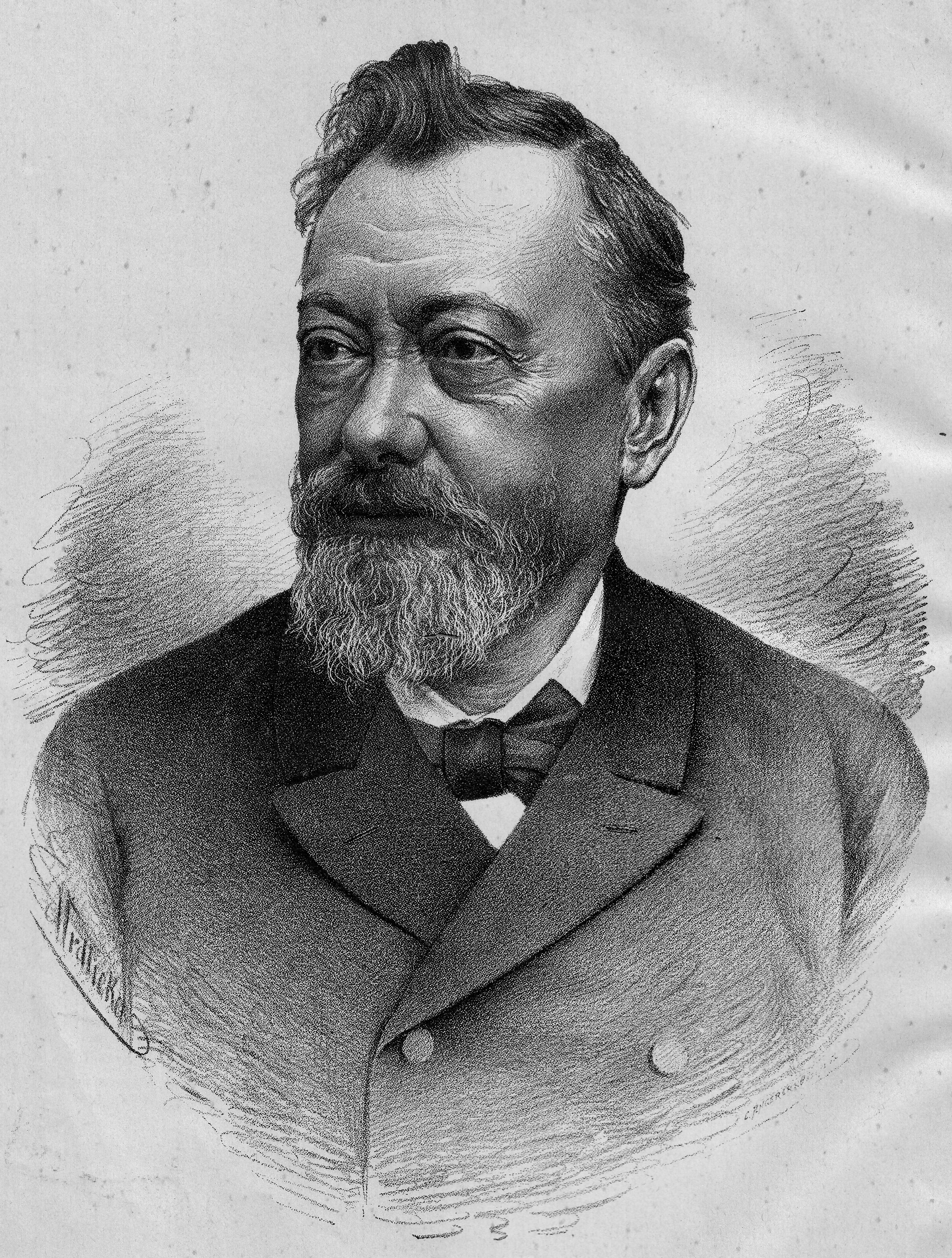 Jovan Bošković (1834-1892), University professor and Minister of Education. Taken from the 1894 edition of the calendar Orao. Srpski (latinica): Jovan Bošković (1834-1892), profesor univerziteta i ministar prosvete. Preuzeto iz izdanja kalendara Orao za 1894. godinu.